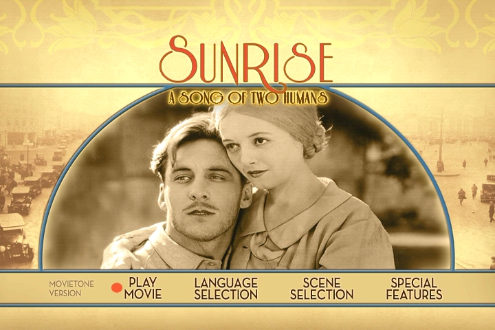 Sunrise - A Song of Two Humans (DVD menu)